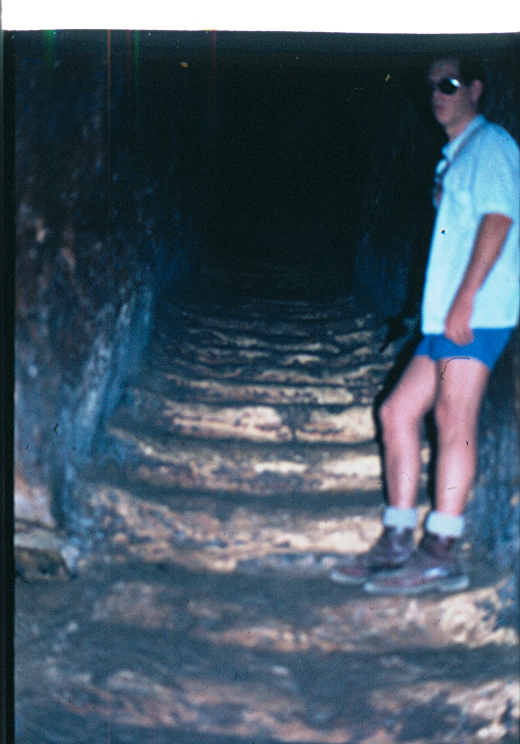 Gibeon_entrance_to_the ancient,_well